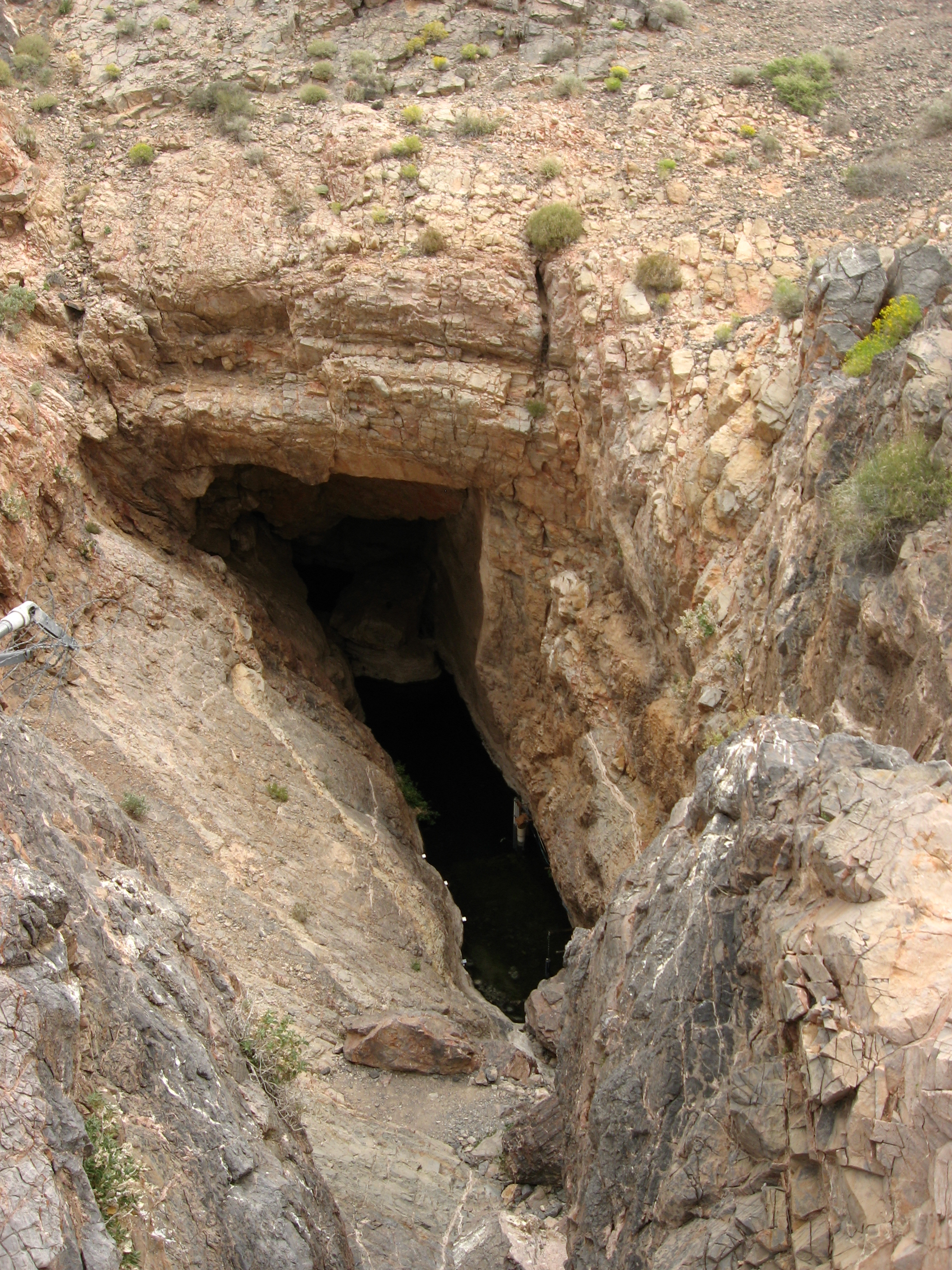 The Devils Hole spring, a unique desert Pupfish habitat is administered by Death Valley National Park, and located within the Ash Meadows National Wildlife Refuge, in Nye County, Nevada Southwestern United States.